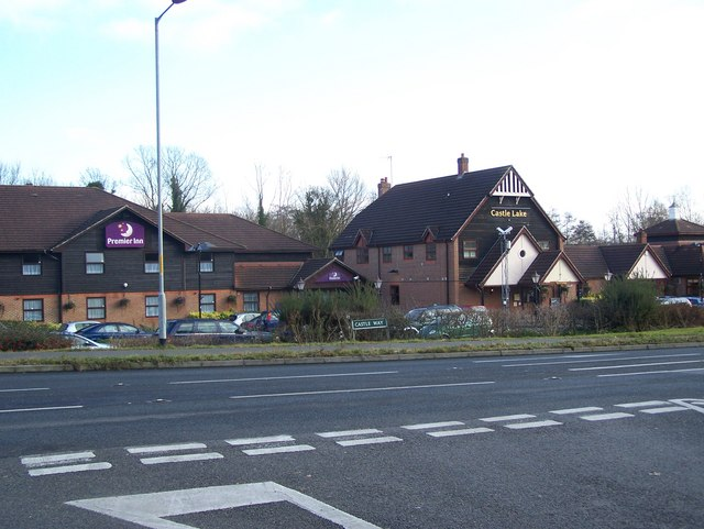 Castle Lake, pub and hotel On Castle Way, opposite Park Road. Pub/restaurant is part of Brewer's Fayre group. Premier Inn is a motel beside pub.